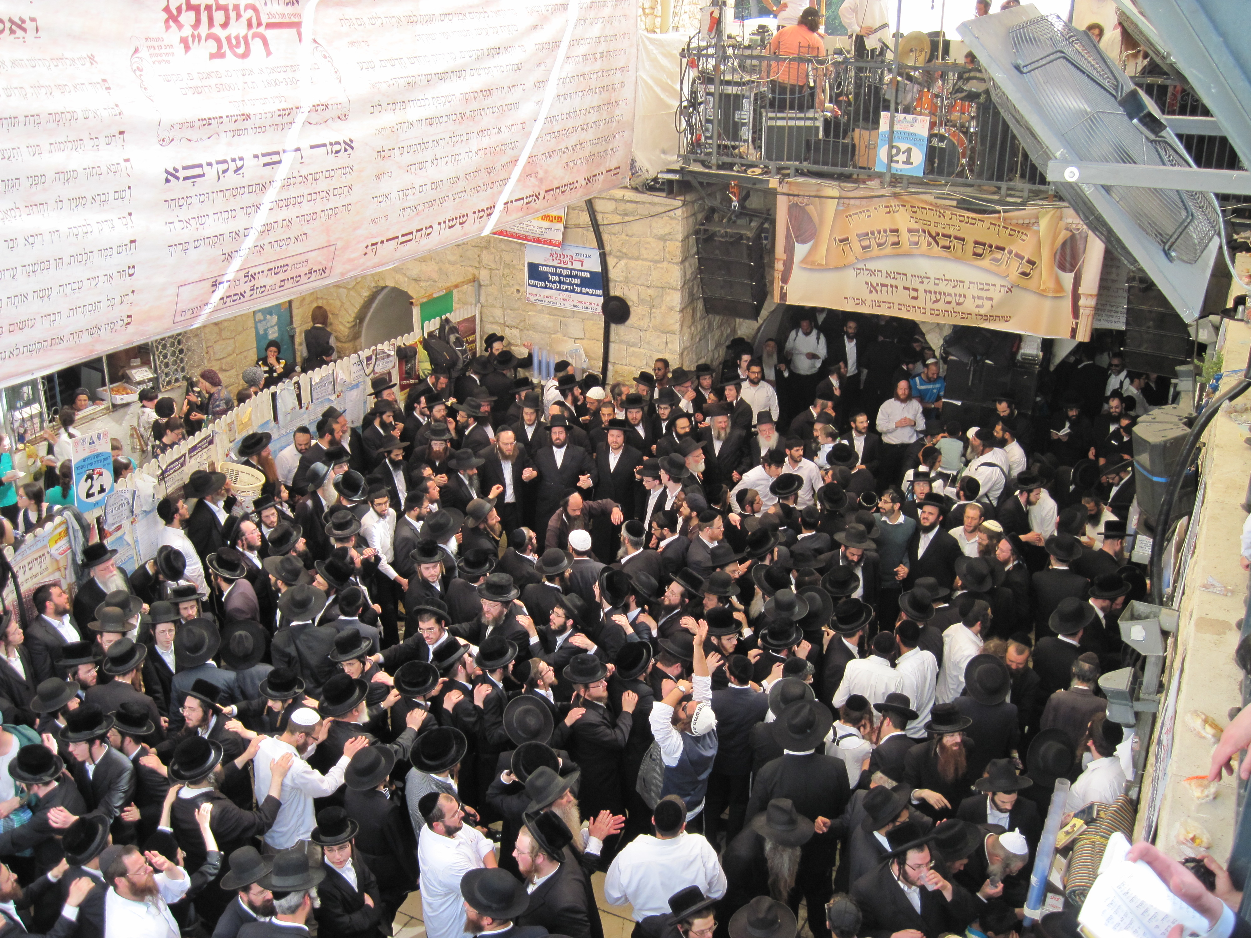 Dance in Rashbi Grave, Lag Baomer 2016, Meron, Israel